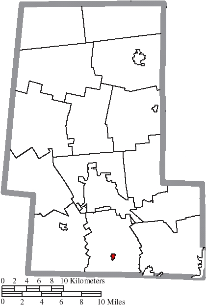 Map of the municipal and township boundaries of Union County, Ohio, United States, as of the 2000 census, with the location of the village of Unionville Center highlighted. Township borders are shown only in unincorporated areas in order to differentiate incorporated and unincorporated areas more clearly.